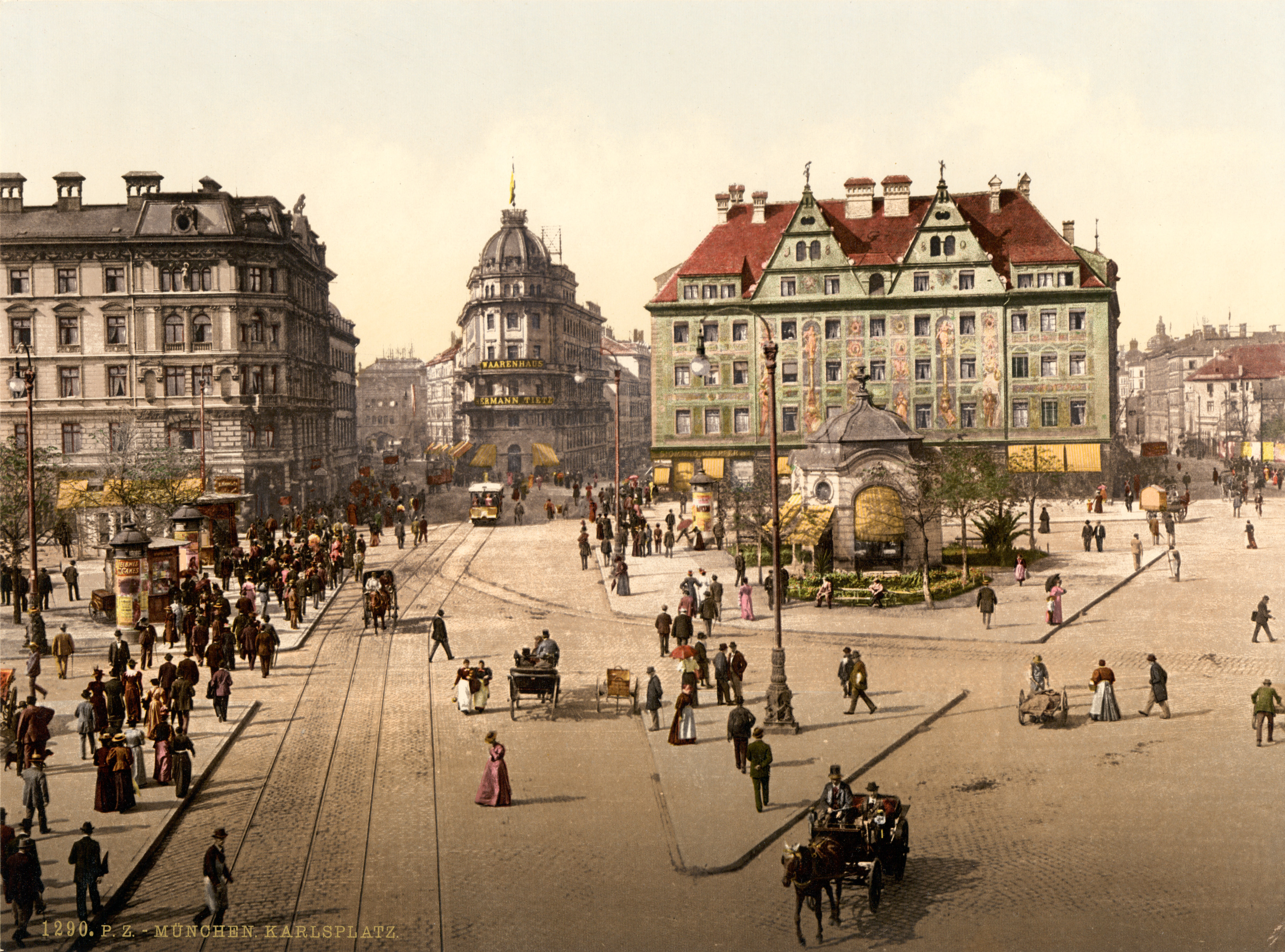 The Munich Karlsplatz ("Stachus"), view in western direction, postcard from late 19th century.